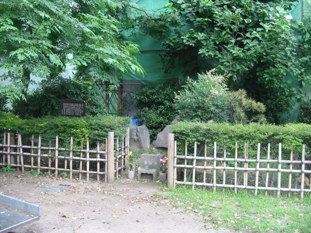 Monument of "Okiku". Beniya-cho Park, JAPAN